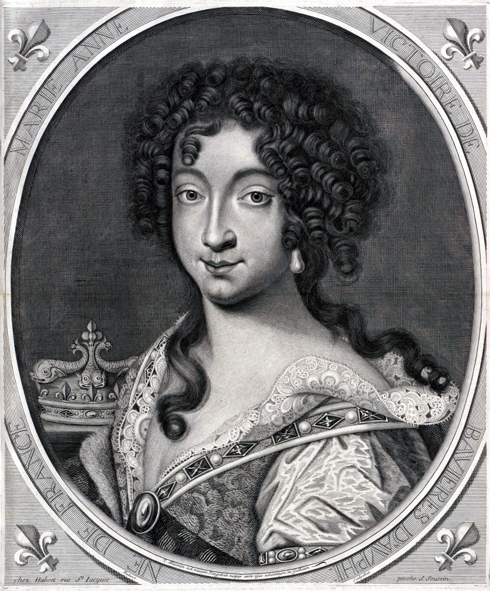 Dauphine Marie Anne Victoire